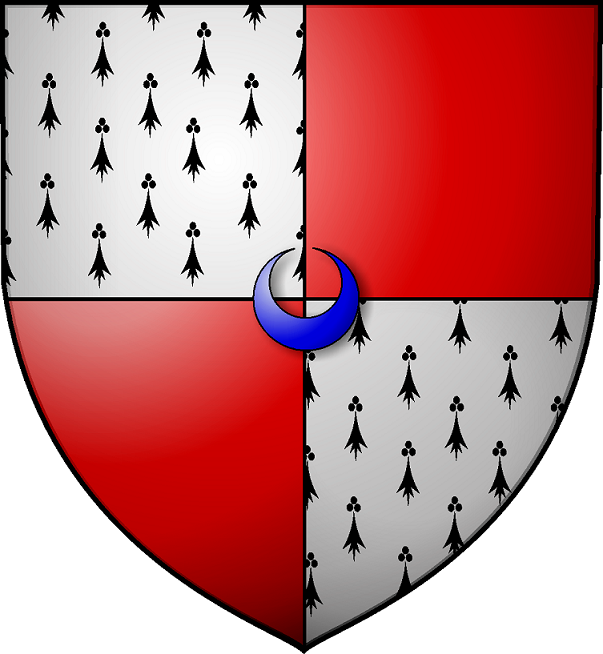 Stanhope, Earl of Stanhope CoA